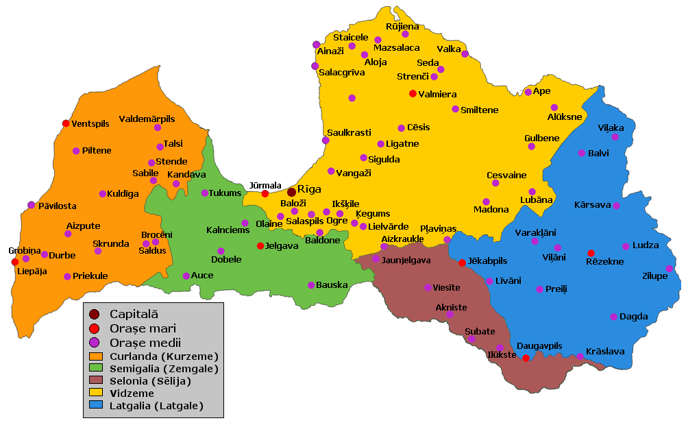 The map of major cities and historical and cultural regions of Latvia (the 5 regions version).